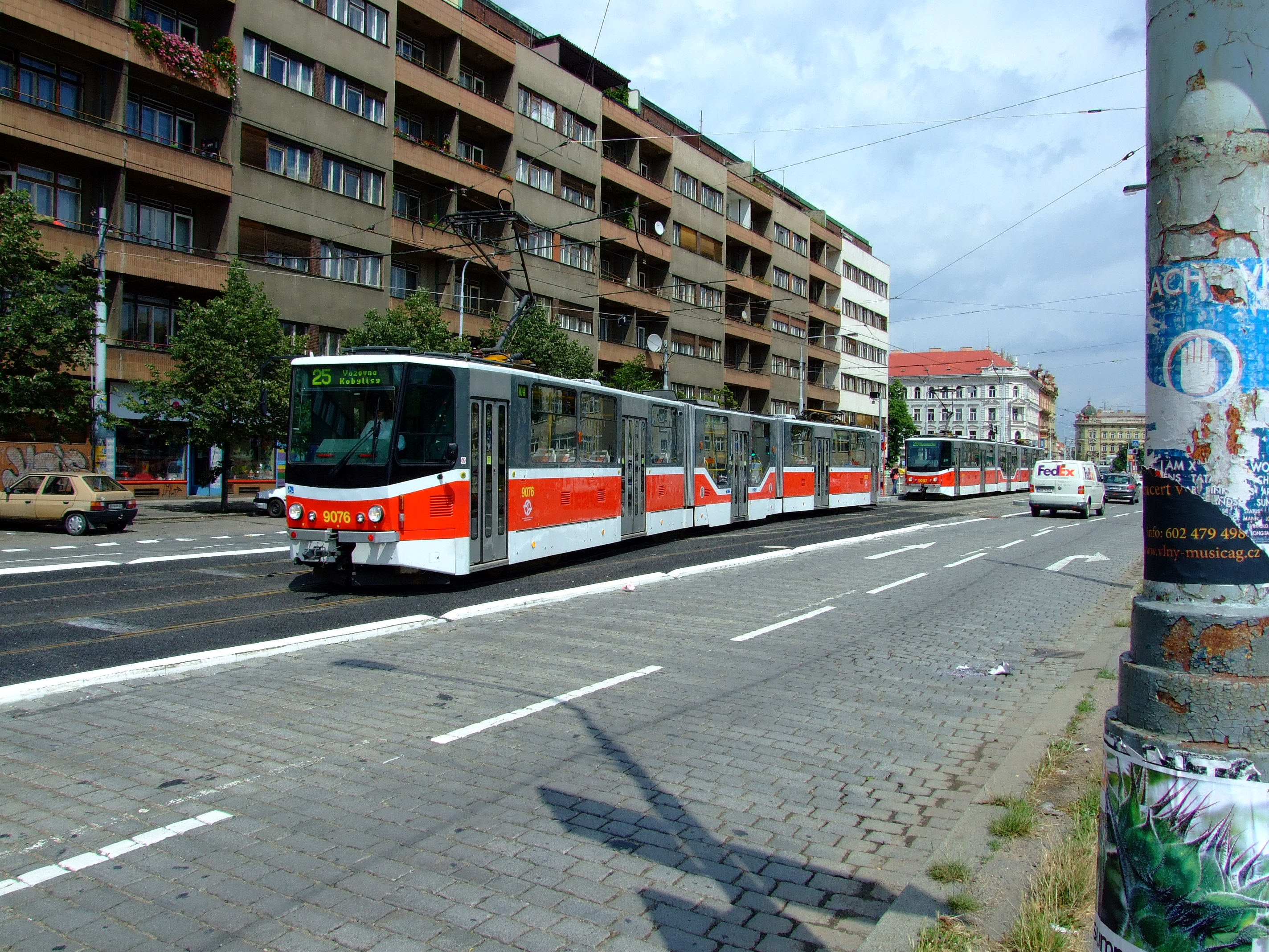 Temporary tram terminus in Prague-Letná due to the Blanka tunnel construction, Prague, CZhelp